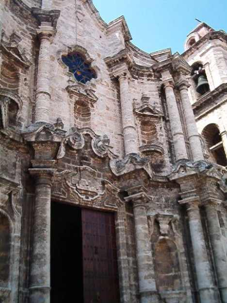 The entrance to the Cathedral of Havana, Cuba. Photo taken July 2004 by glasperlenspiel.